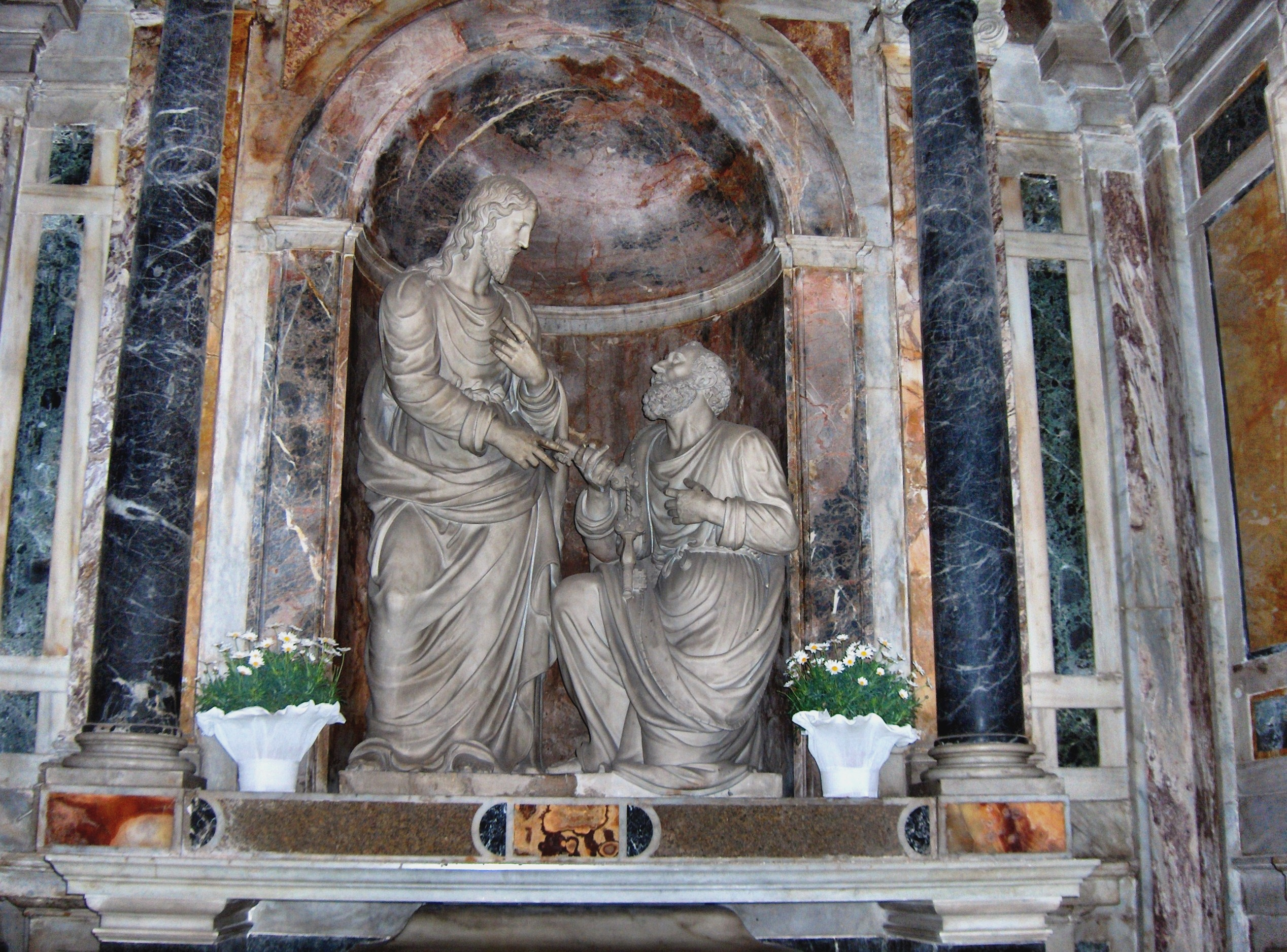 "Christ delivering the keys of Heaven to St. Peter" (1594) by the architect and sculptor Giacomo della Porta; St. Peter chapel in the church of Santa Pudenziana, Rome, Italy